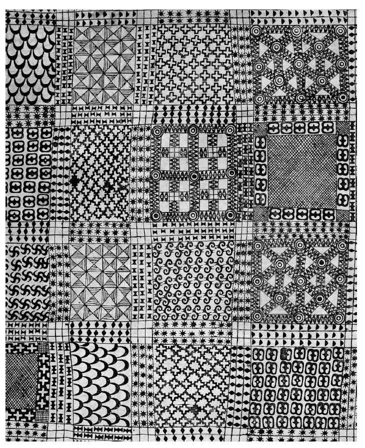 Adinkra mourning cloth collected by Thomas Edward Bowdich in 1817. Bowdich obtained this cotton cloth in Kumasi, a city in south-central Ghana. The patterns were printed using carved calabash stamps and a vegetable-based dye. This oldest known example of adinkra art and features fifteen stamped symbols, including nsroma (stars), dono ntoasuo (double Dono drums), and diamonds. British Museum.